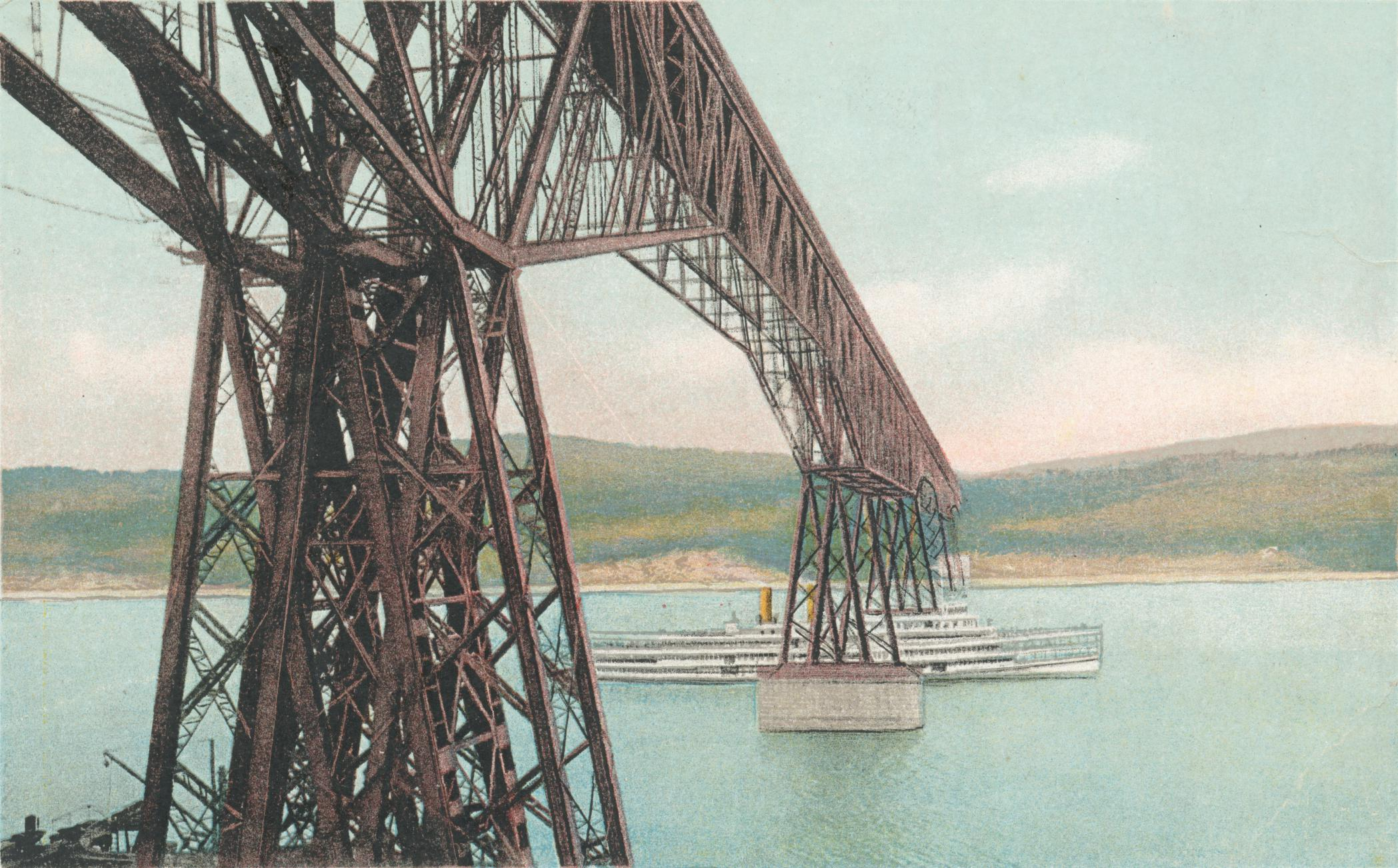 Postcard series number: 71013 1913-1918, issued through 1930. Began the 'contract' issues, cards produced for museums and other organizations.